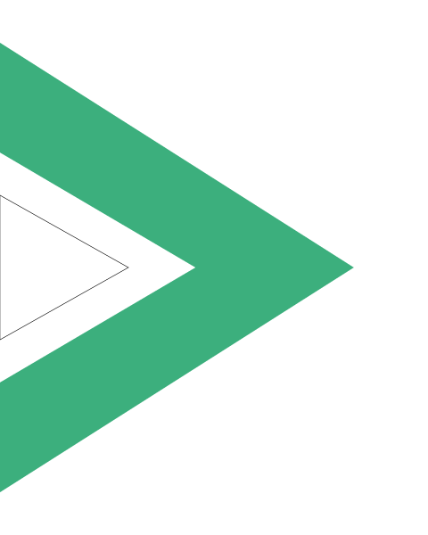 Based on David Nicolle "Armies of the Muslim Conquest" illustrations by Angus McBride. And Martin Hinds "The Banners and Battle Cries of the Arabs at Siffin" Al-Abhath XXIV